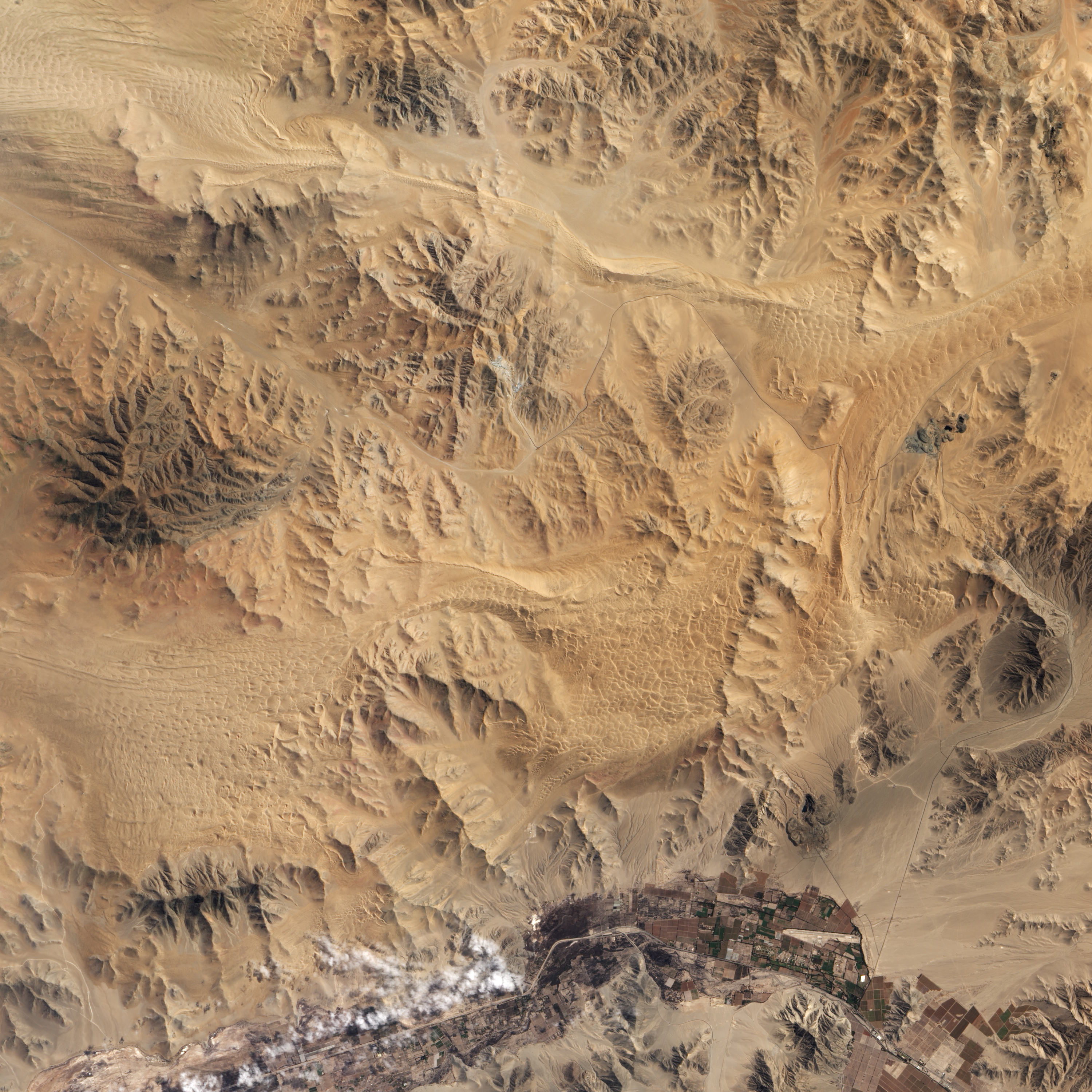 Natural-colour satellite image of the San Jose mine and its surroundings. The mine complex appears as an uneven patch of gray in the midst of camel-coloured hills devoid of vegetation just above the center line.